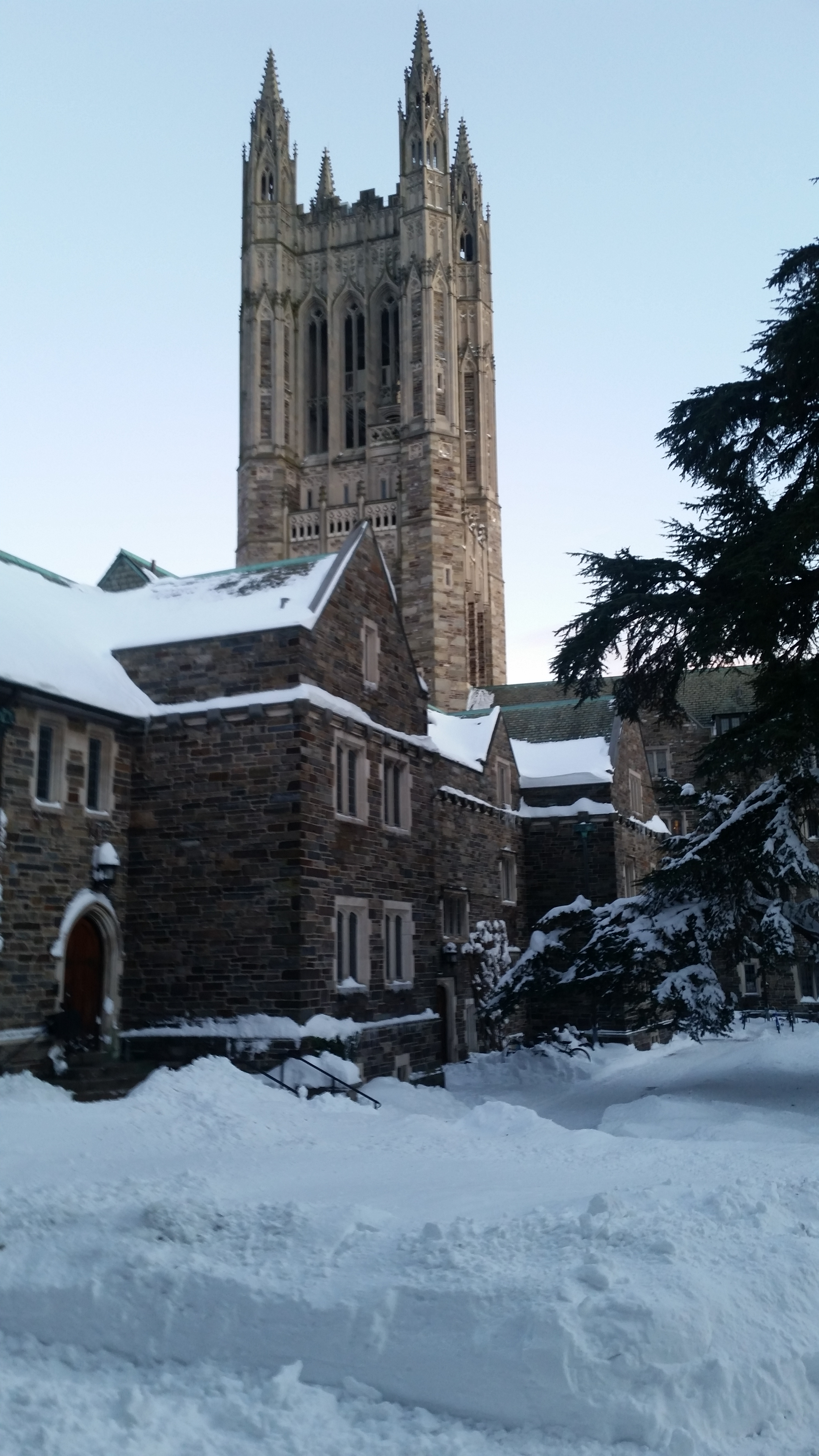 Cleveland Tower at the Old Graduate College, Princeton University. A view from inside the Old Graduate College courtyard during winter with heavy snow.